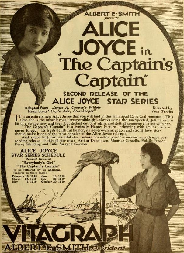 Ad for the American comedy drama film The Captain's Captain (1919) with Alice Joyce, on page 19 of the January 4, 1919 Motion Picture World.